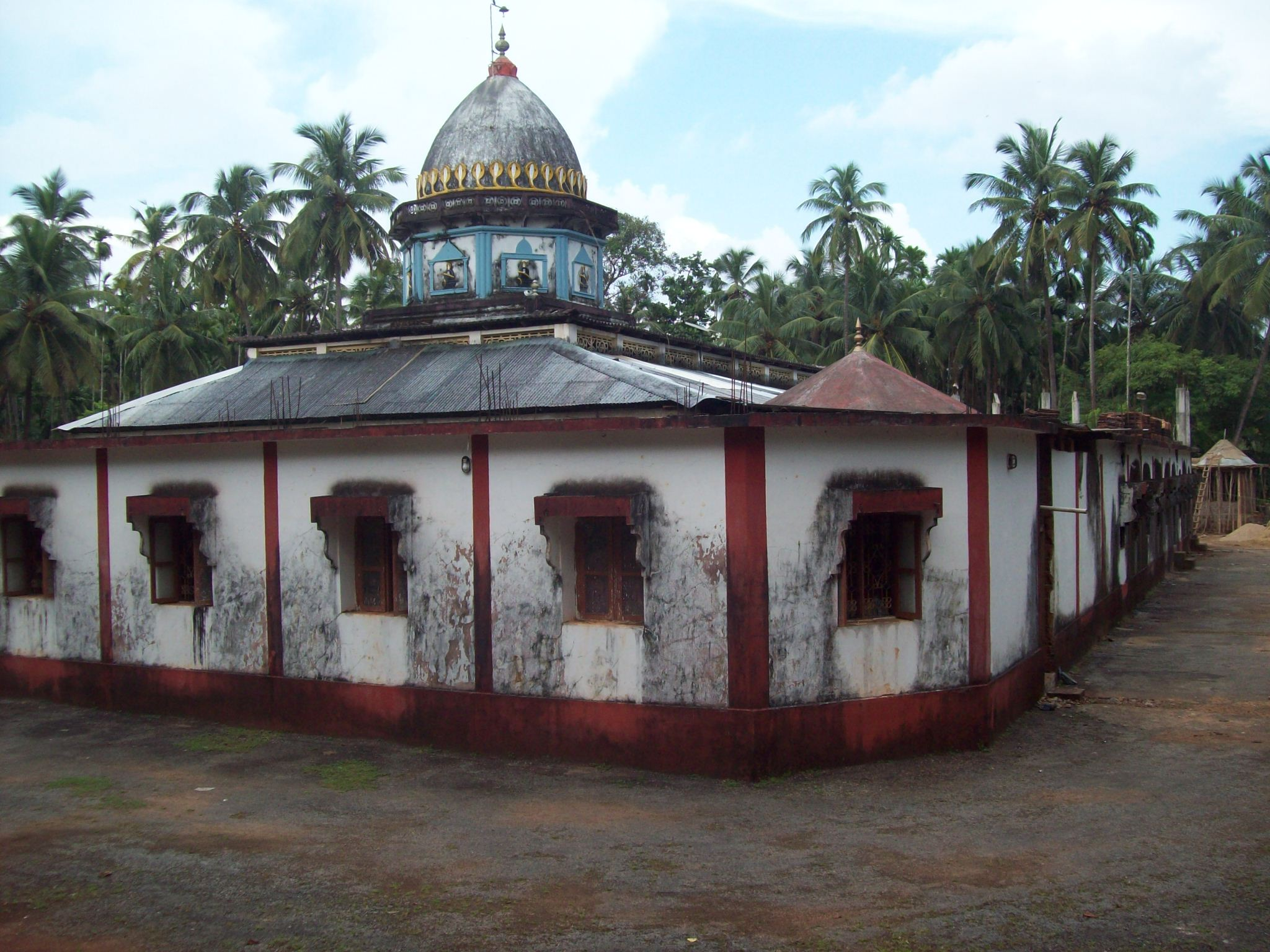 Beautiful temple of South India